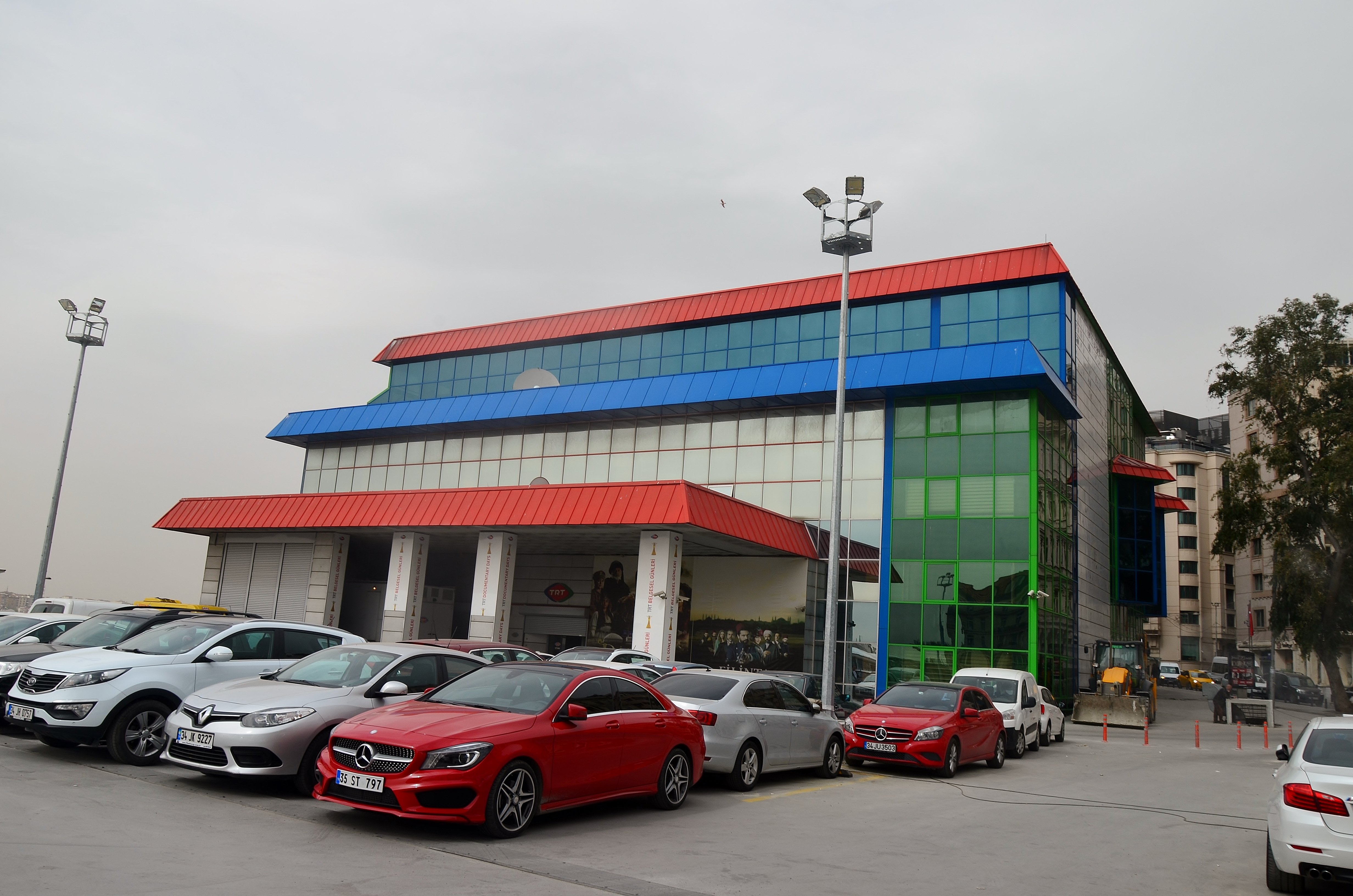 TRT Building at Tepebaşı, Istanbul, Turkey